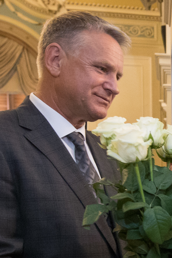 2019.gada 8.jūlijs. Darbs Saeimas sēdē. Foto: Ernests Dinka, Saeima Izmantošanas noteikumi: saeima.lv/lv/autortiesibas